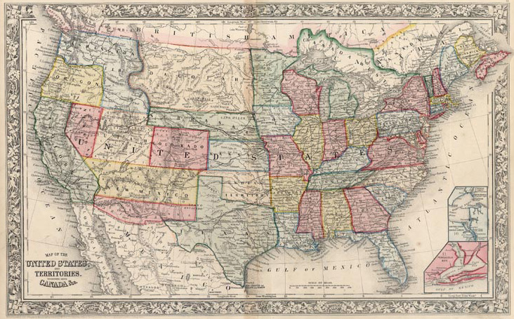 "Map of the United States, and Territories. Together with Canada &c." From Mitchell's New General Atlas. Philadelphia: S.A. Mitchell, Jr., 1861. 13 1/2 x 21 3/4. Lithograph. Original hand color.